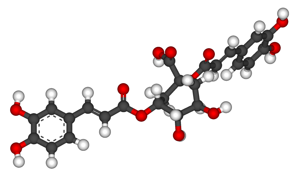 Ball-and-stick model of cynarine (1,5-dicaffeoylquinic acid). Created using Accelrys DS Visualizer Pro 1.6 and GIMP.